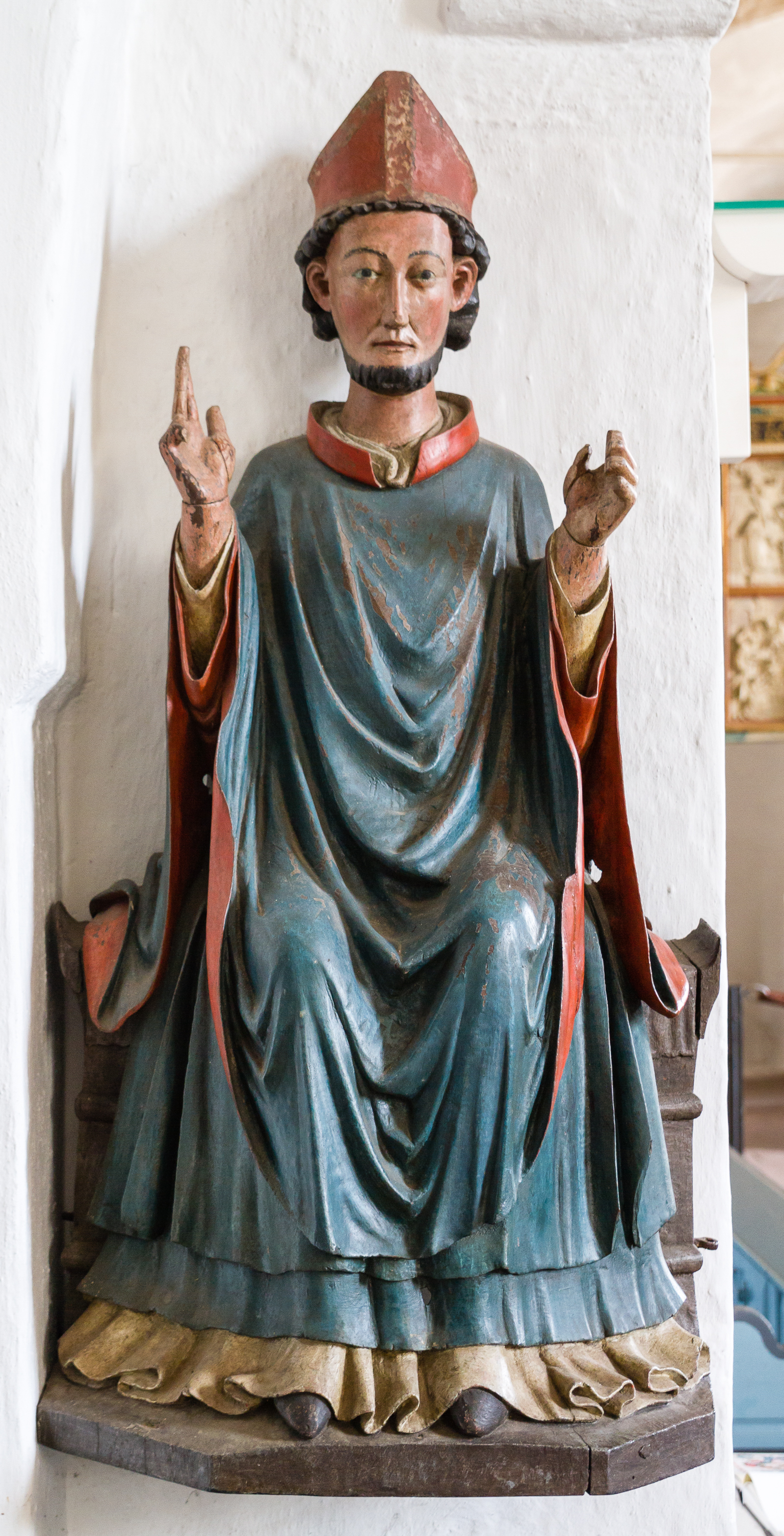 Designation: Church St. Nicolai with equipment Location: Kirchweg Place: Wyk-Boldixum, Collective municipality Föhr-Amrum, District Nordfriesland, Schleswig-Holstein, Federal Republic of Germany Construction time: 13th century Description: Romanesque church building with gothic and baroque extensions Object identification: 1510